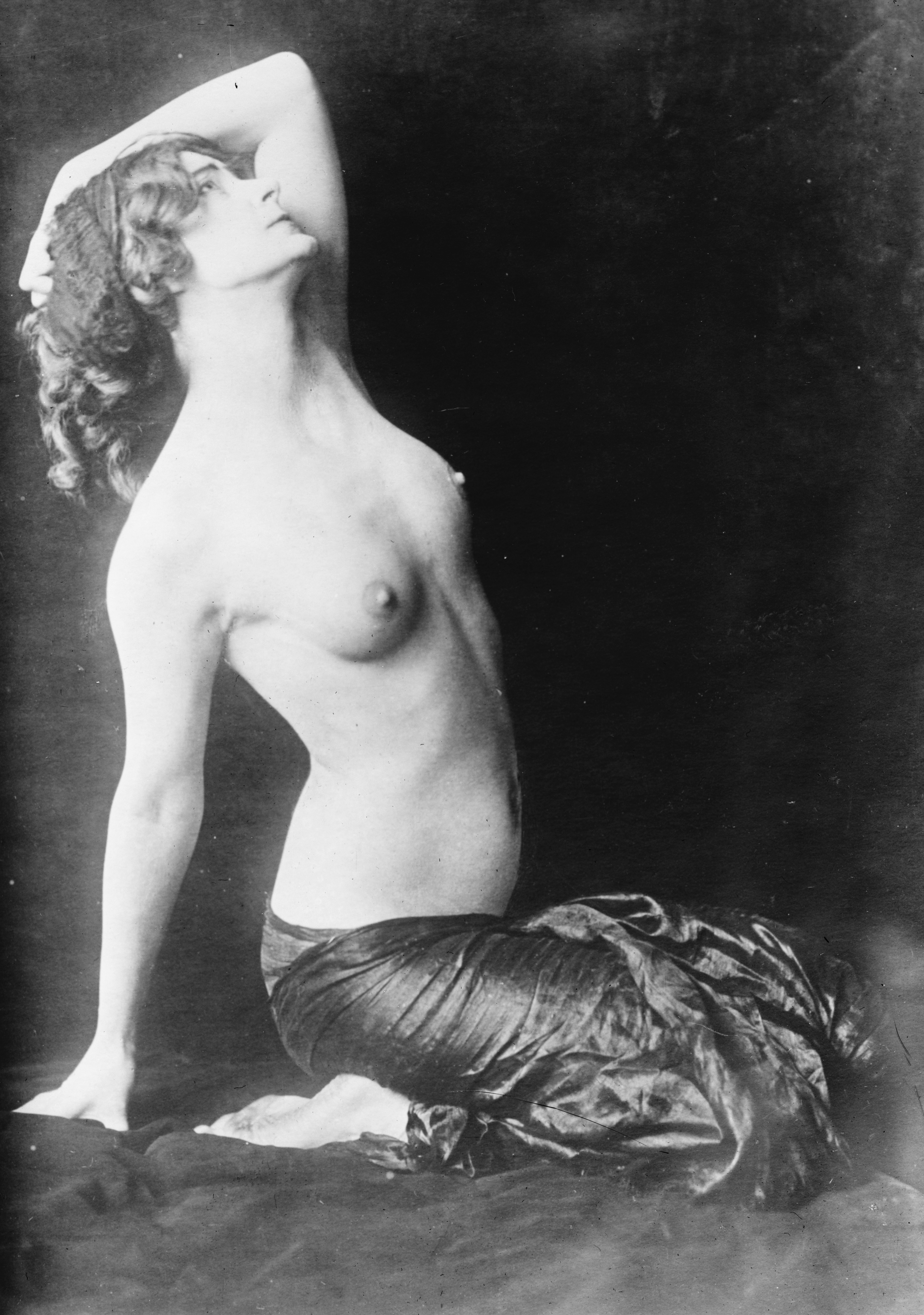 Dancer Adorée Villany, photoportrait, seated on ground, topless, right arm behind her with hand on ground, left arm raised above her head, bent at elbow.